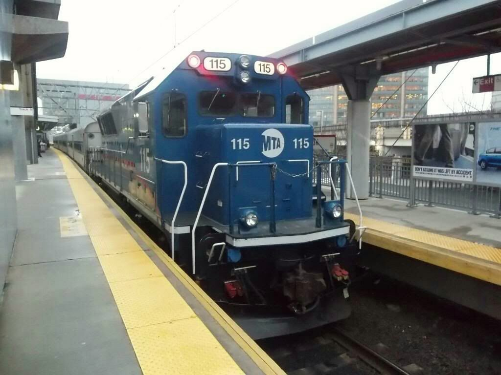 Metro-North 115